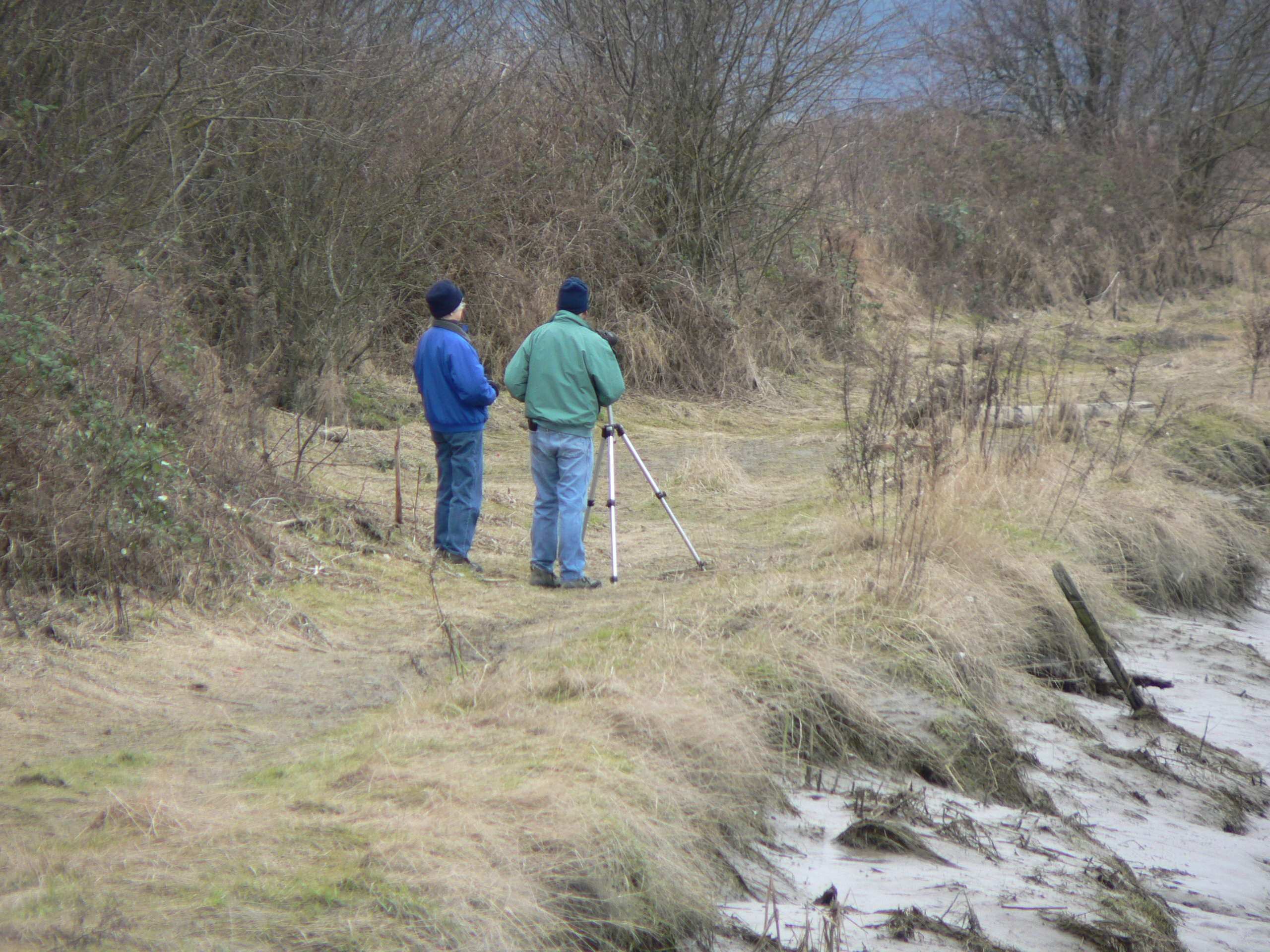 Birdwatching with tripod